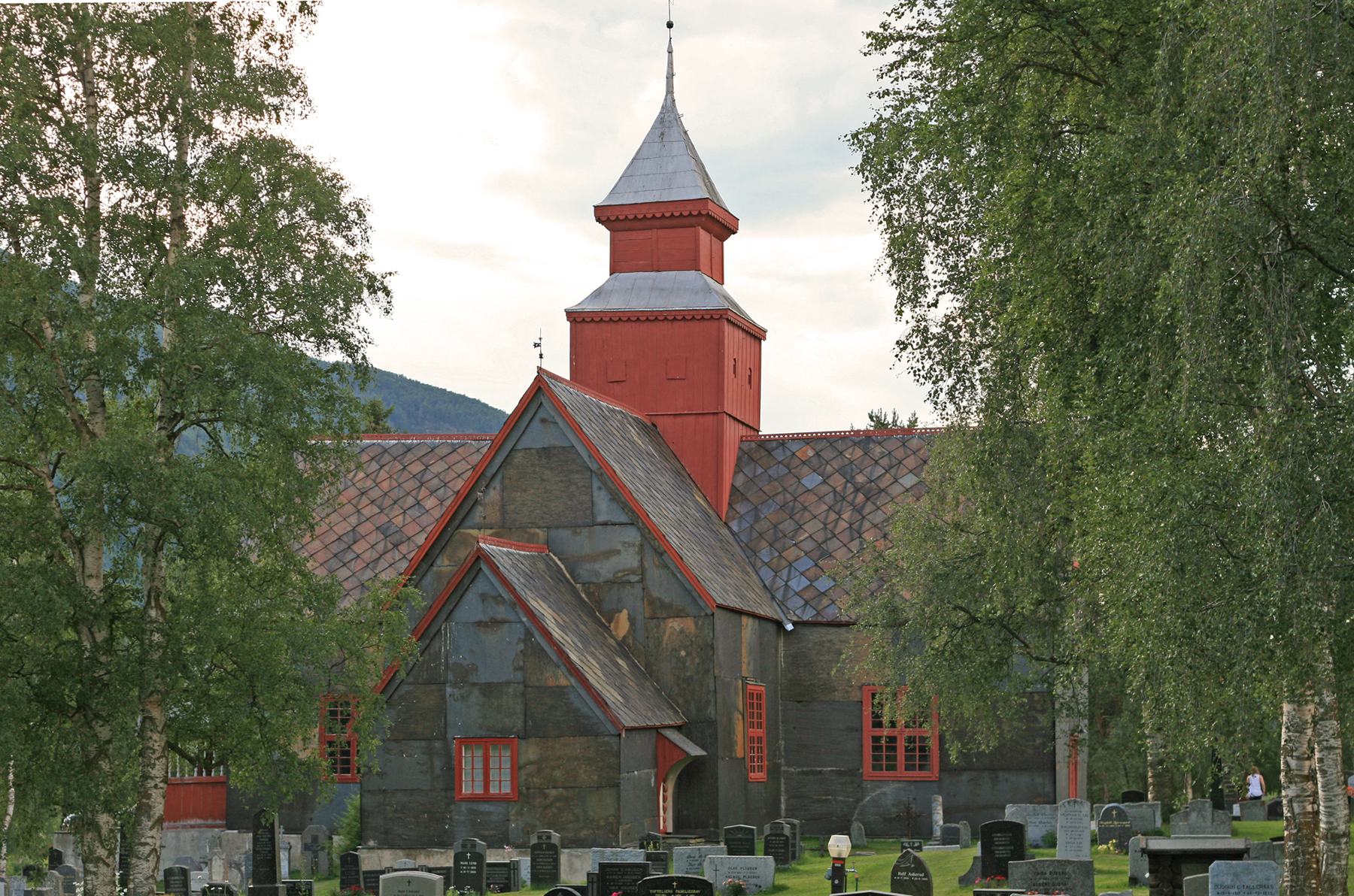 Dovre church, eller Zion kirke, Oppland, Norway. Built 1736, clad with local slate.